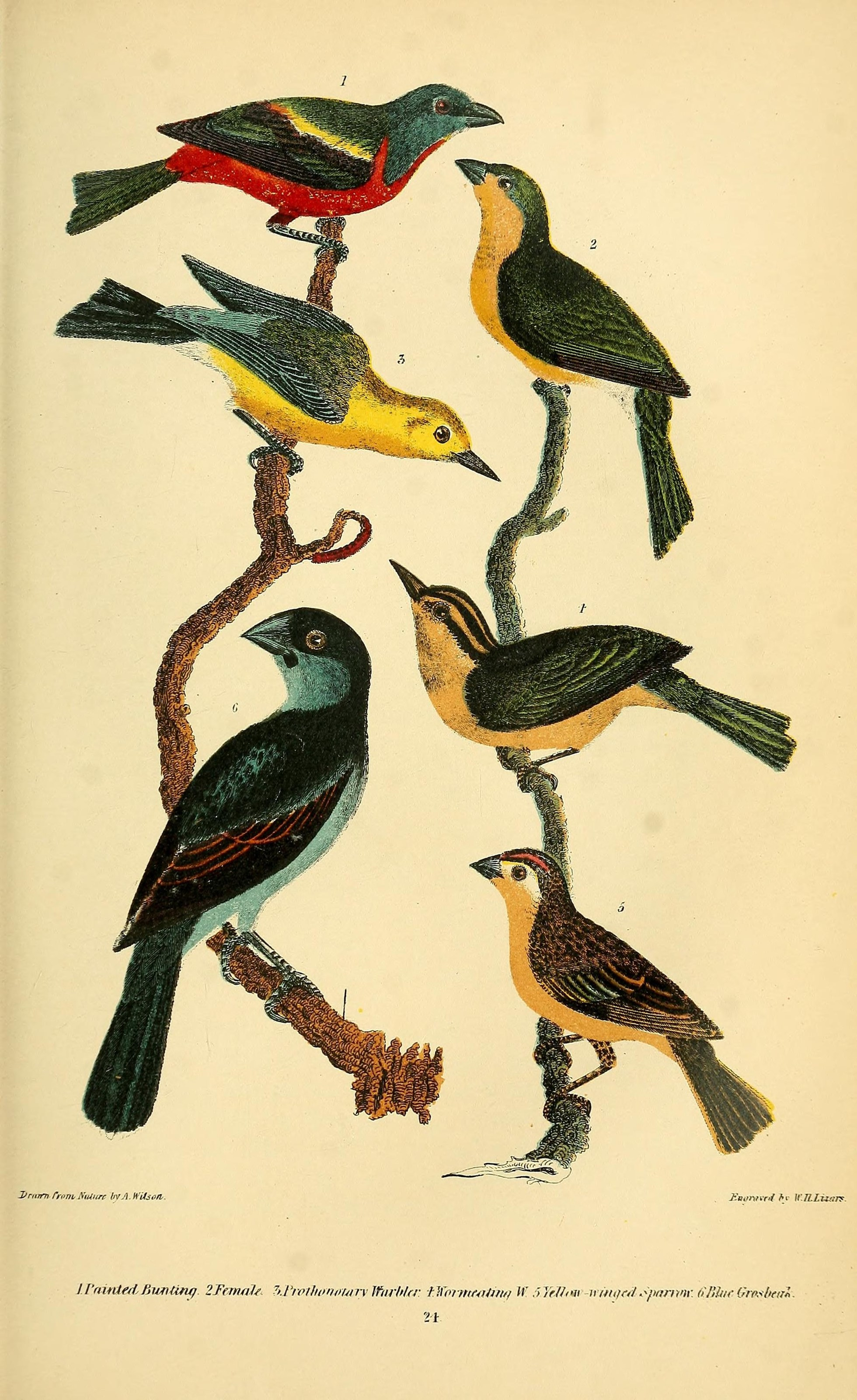 Jfntirr, fr„rn yulurr In' ■. Hit J?wnm-4 A. itiLLUm? j U'mnied fowling 2T(maU 7 ..l'ivili(nu.vnyWiirbla- fWorntMinu) W STfffim n ringed Sjmrnni ■ oI'Aif Givfbt